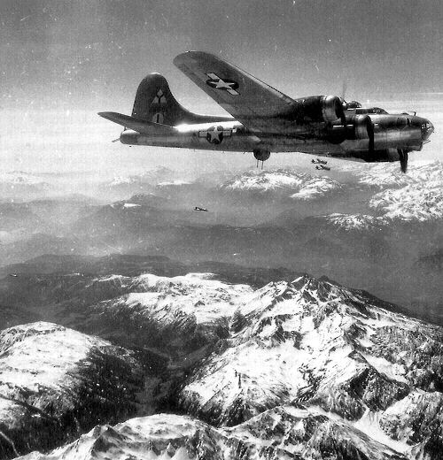 B-17 of the 97th Bombardment Group (15th AF)